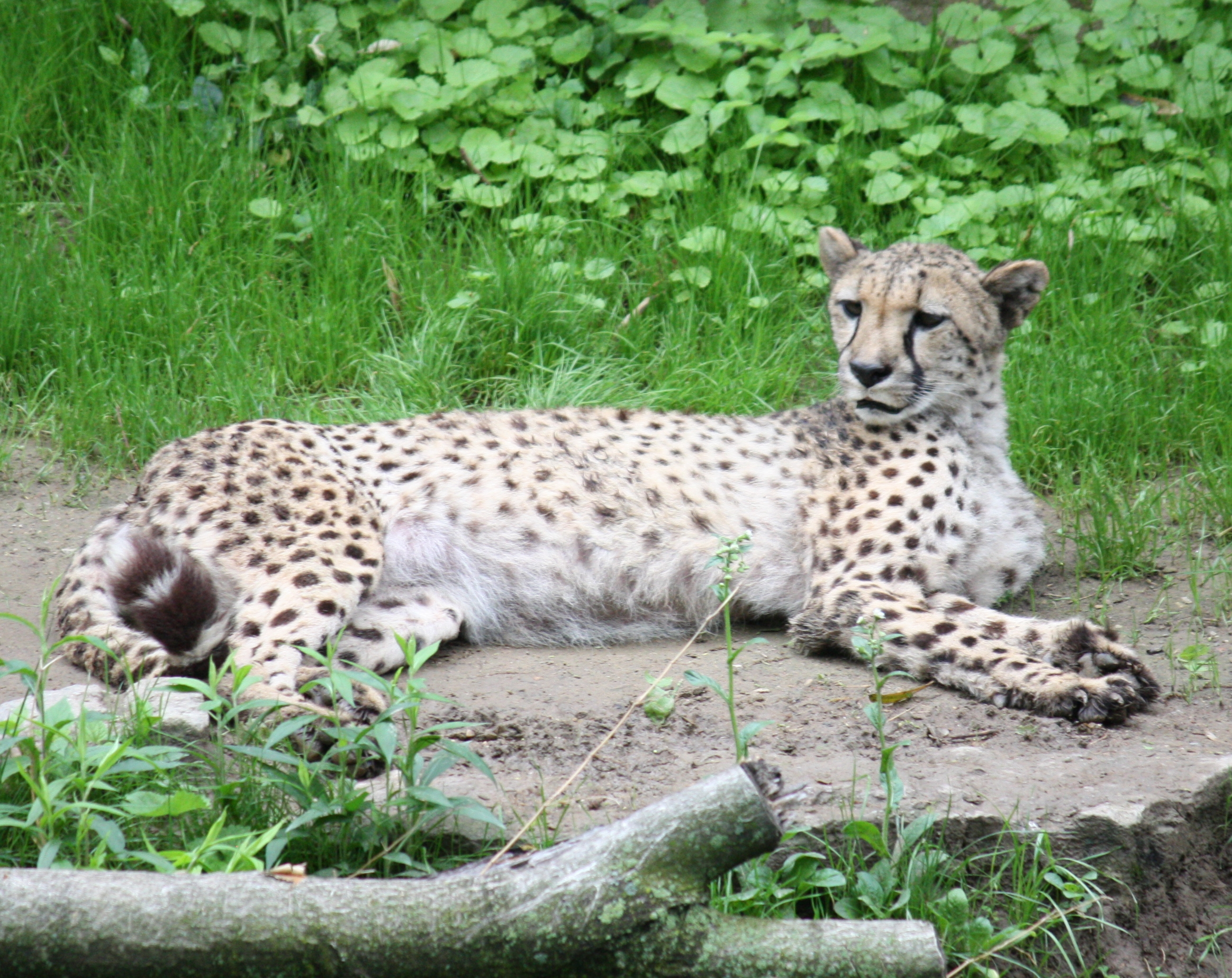 Cheetah Acinonyx jubatus jubatus at Cincinnati Zoo